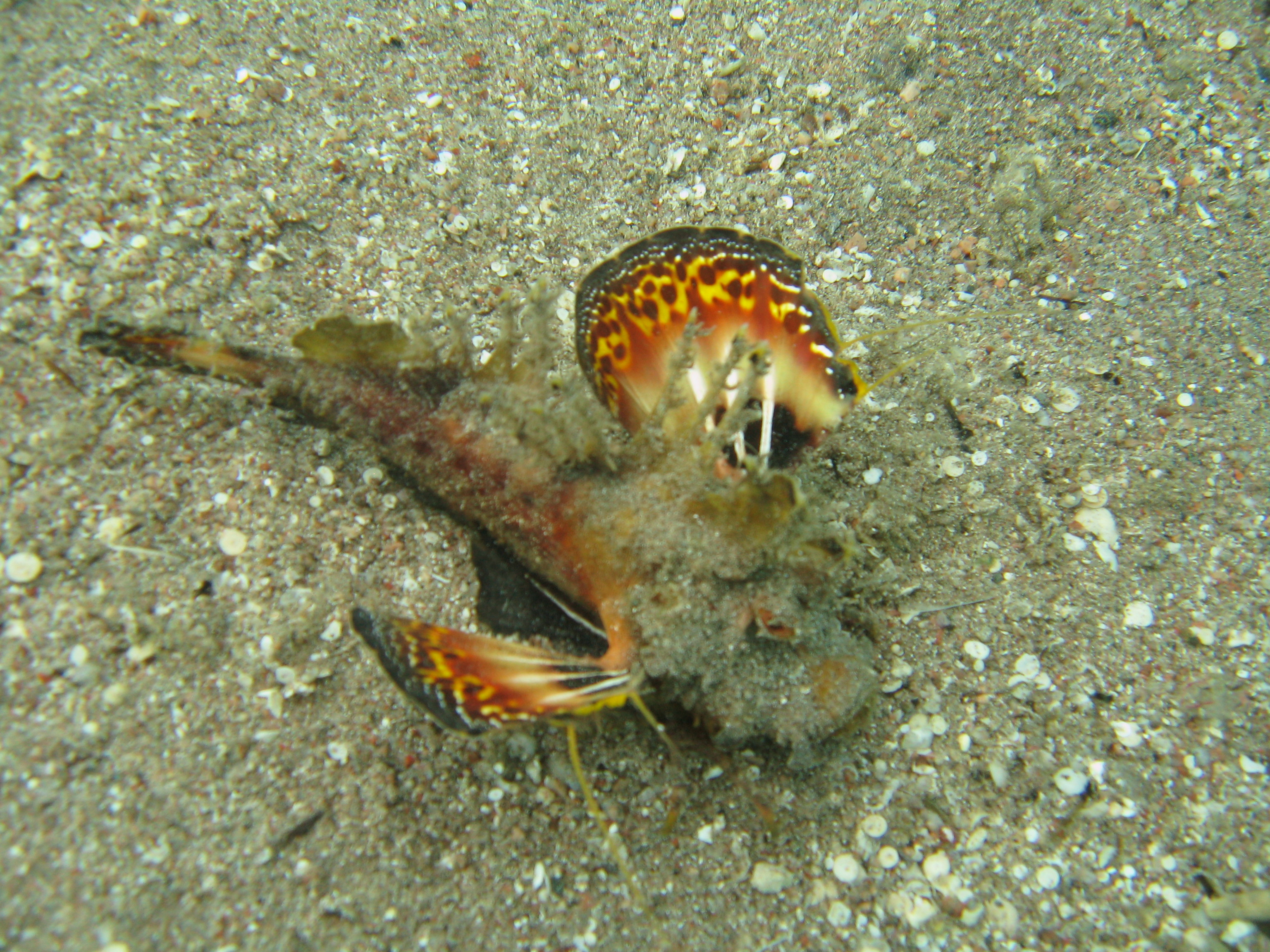 Inimicus filamentus, picture taken in Dahab (Sinaï, Egypt) in the Moray Garden